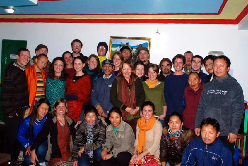 Volunteers working with Lha